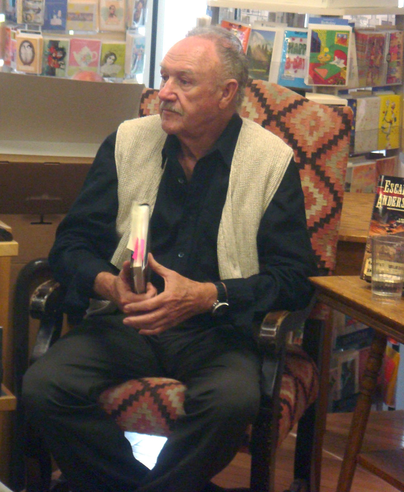 Gene Hackman at a book signing in Albuquerque 2008